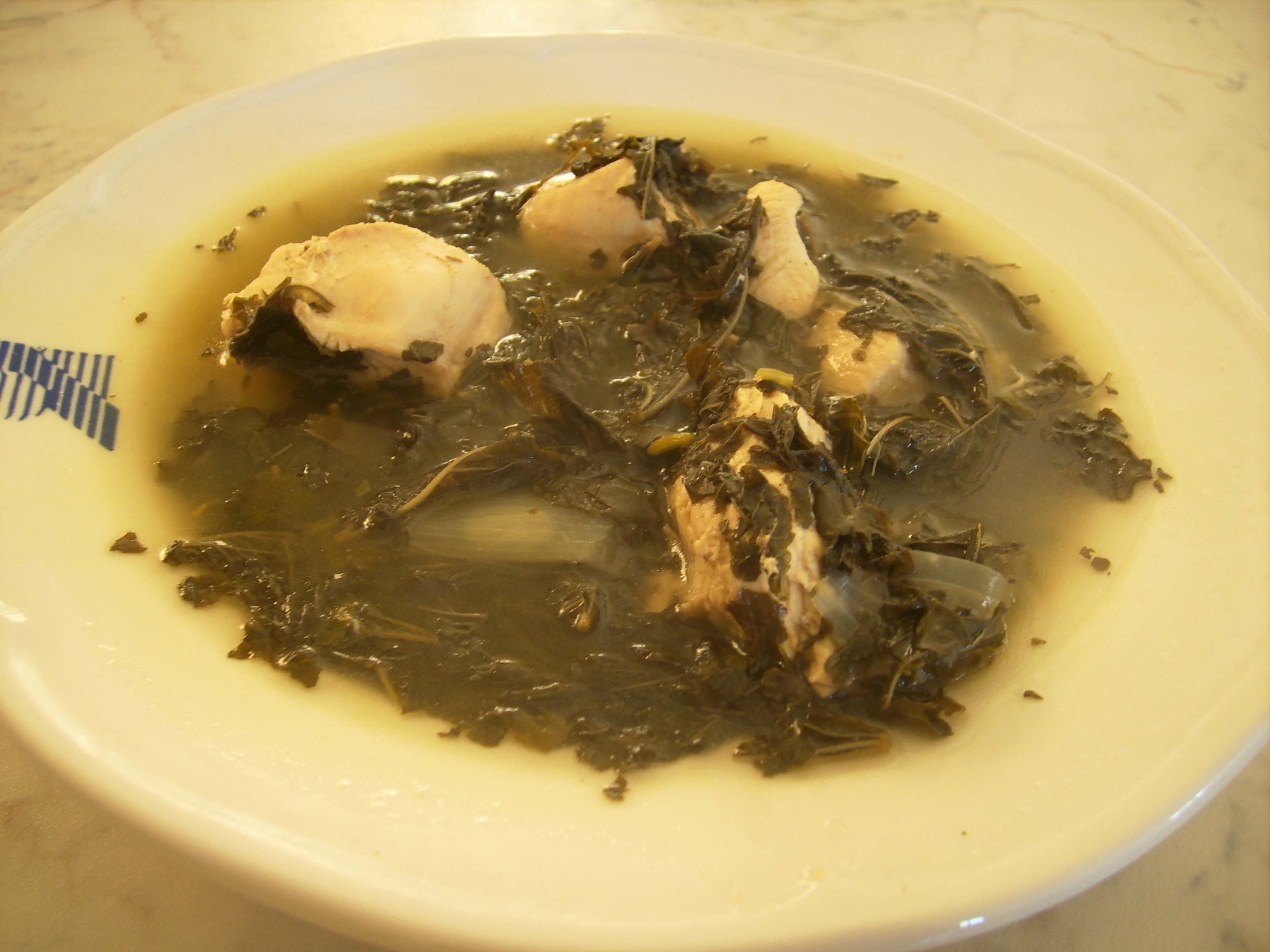 Lebanese Mulukhiyi with chicken.